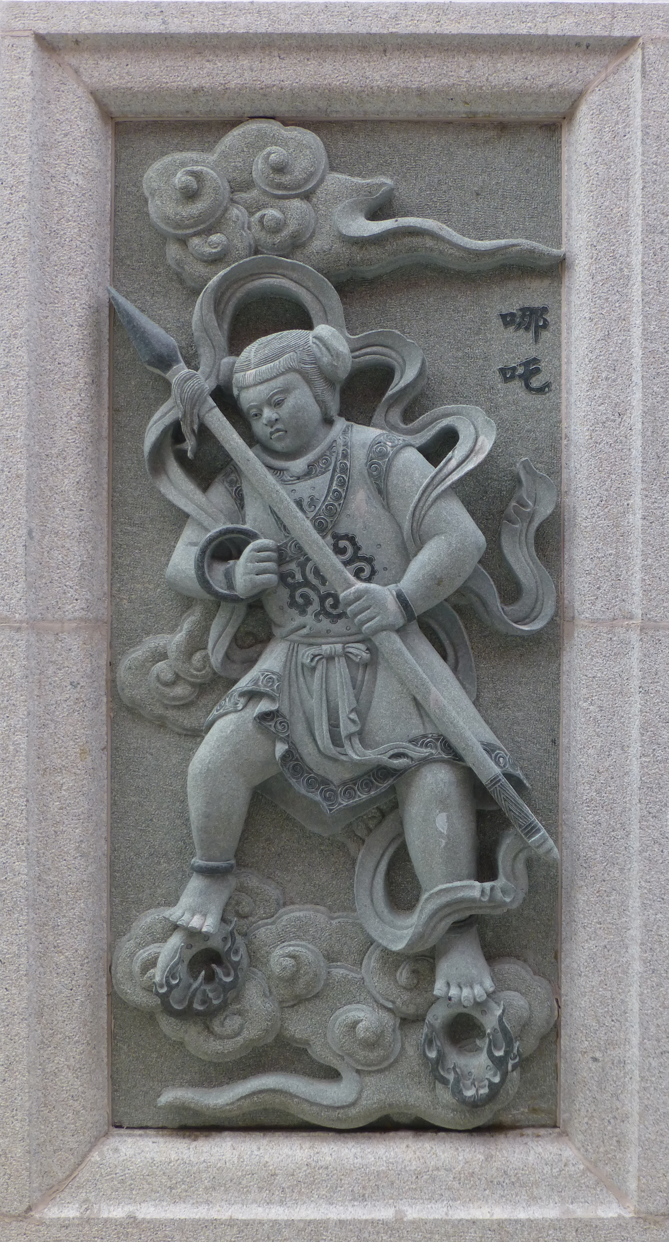 008 Nezha (deity), Investiture of the Gods at Ping Sien Si, Pasir Panjang, Perak, Malaysia Photograph from the Ping Sien Si Temple in Perak, Malaysia taken by Anandajoti.